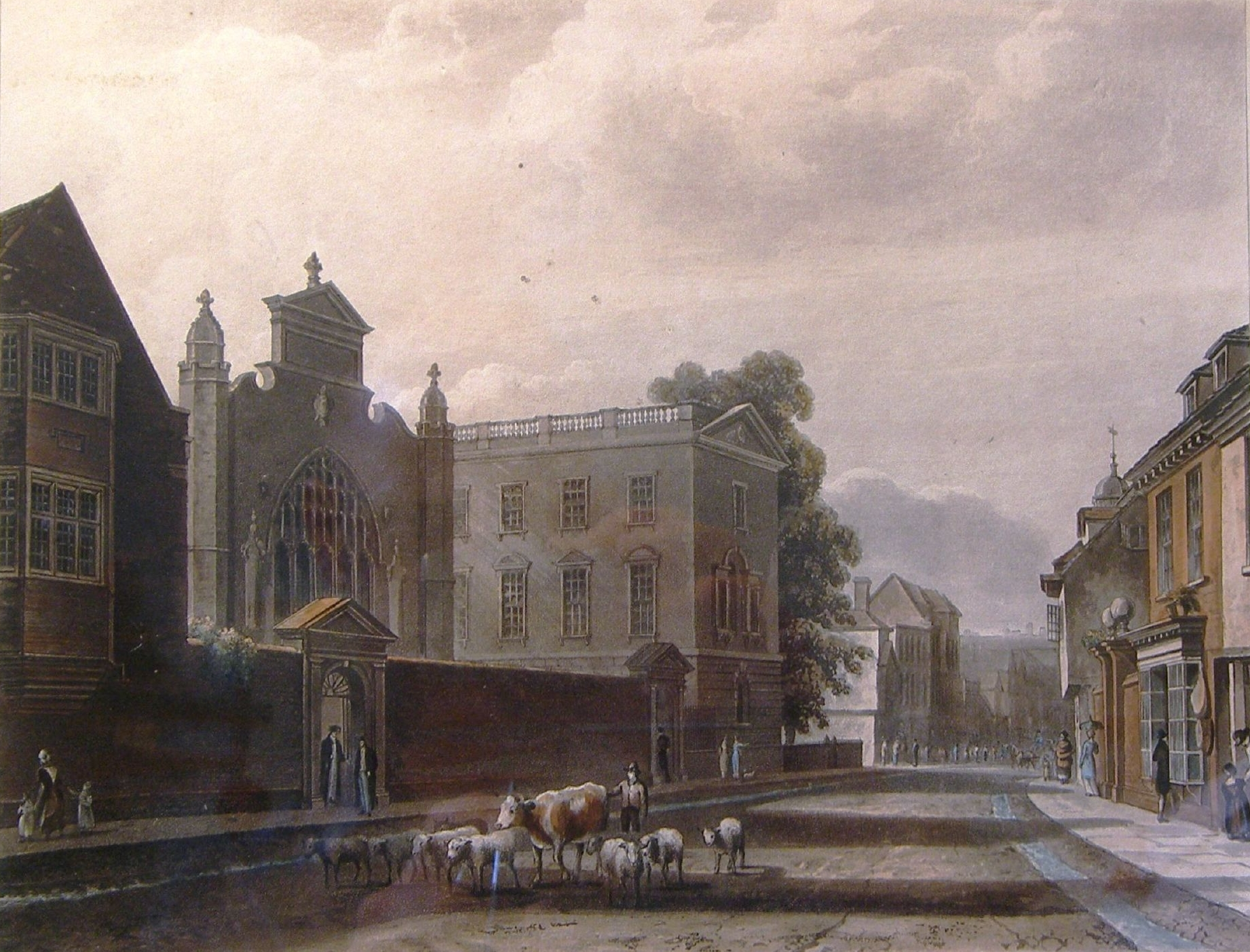 St. Peter's College (Peterhouse), Cambridge.